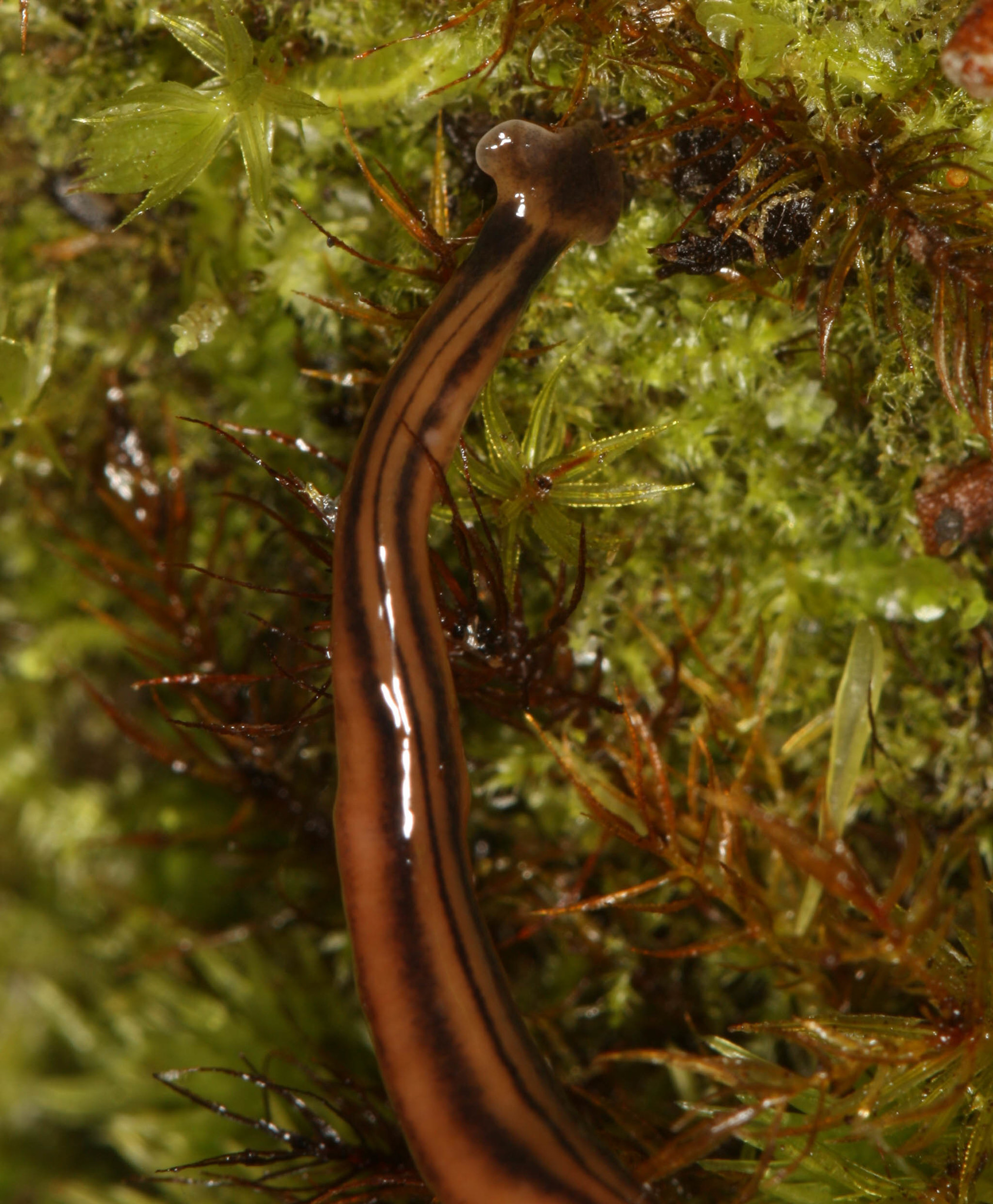 Bipalium kewense in the Island of Hawaii, Hawaii